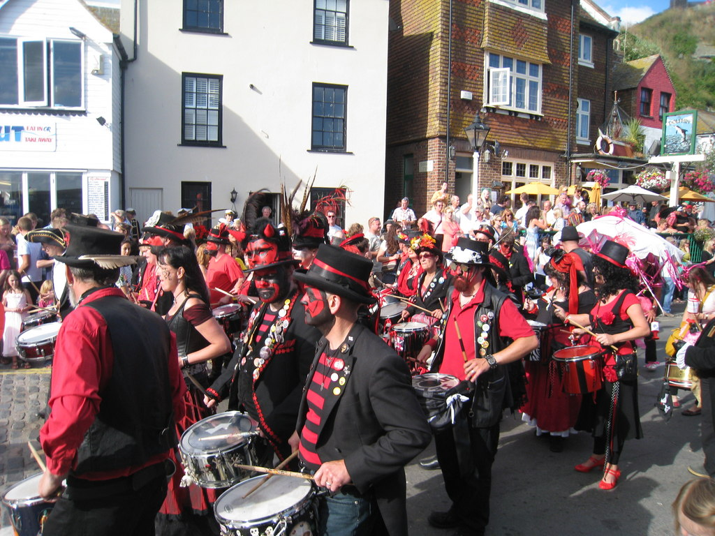 Section 5 Drummers, Old Town Carnival 2010